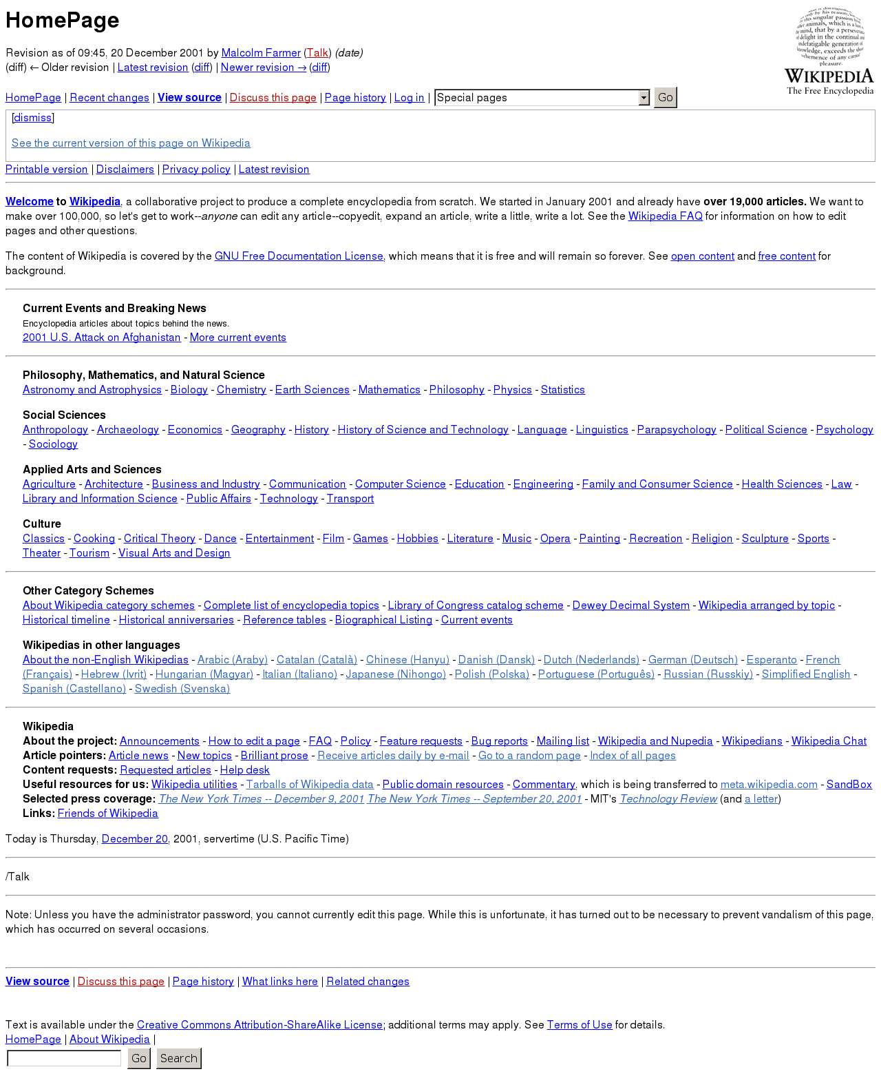 The first preserved Main Page of Wikipedia, shown in the Nostalga skin.